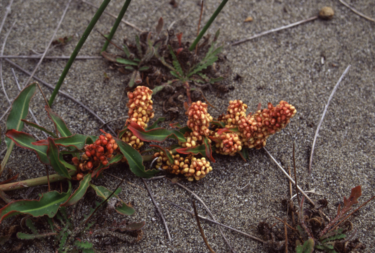 Rumex salicifolius at Humboldt Bay National Wildlife Refuge Complex, California, USA